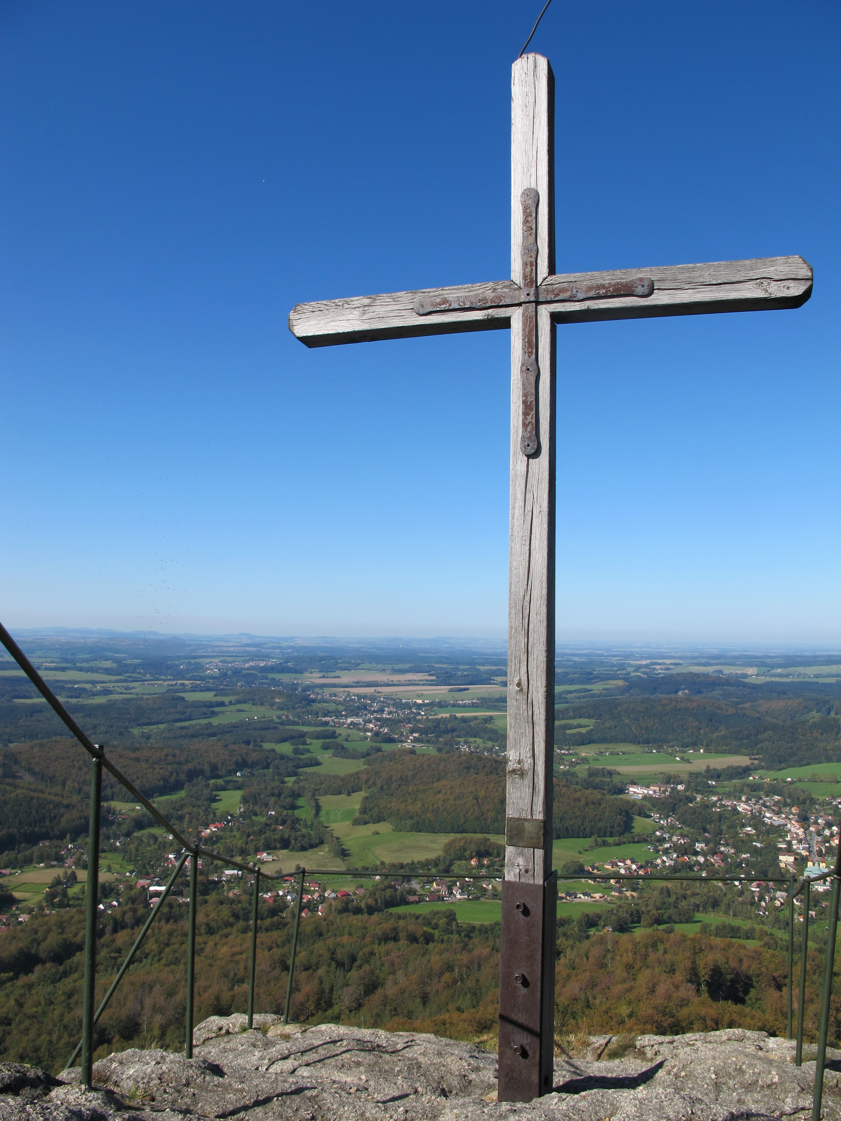 Ořešník (800 m) - one of the peaks of the Jizera Mountains, Liberec District in Czech Republic